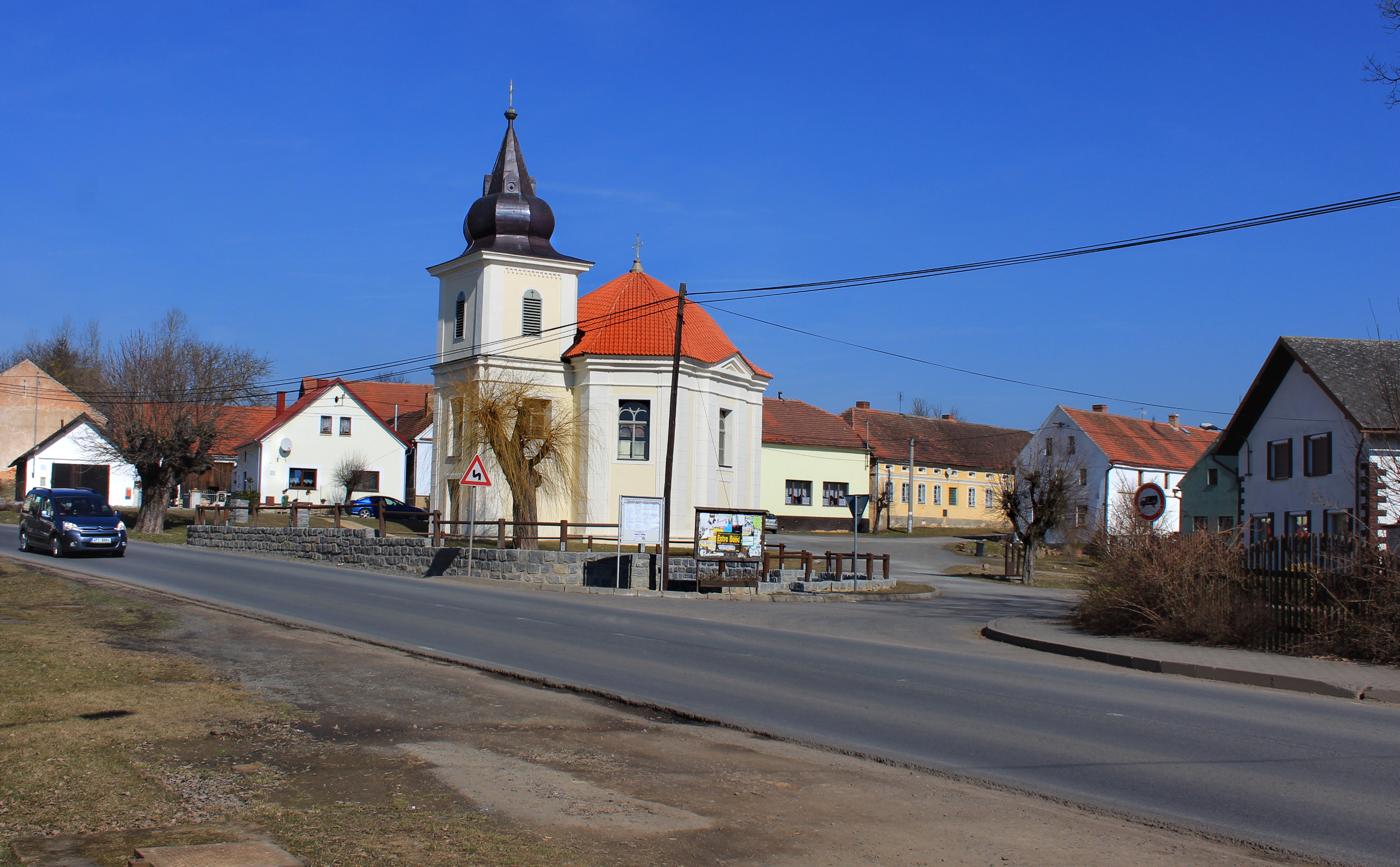 Common in Ostrov u Stříbra, part of Kostelec, Czech Republic.